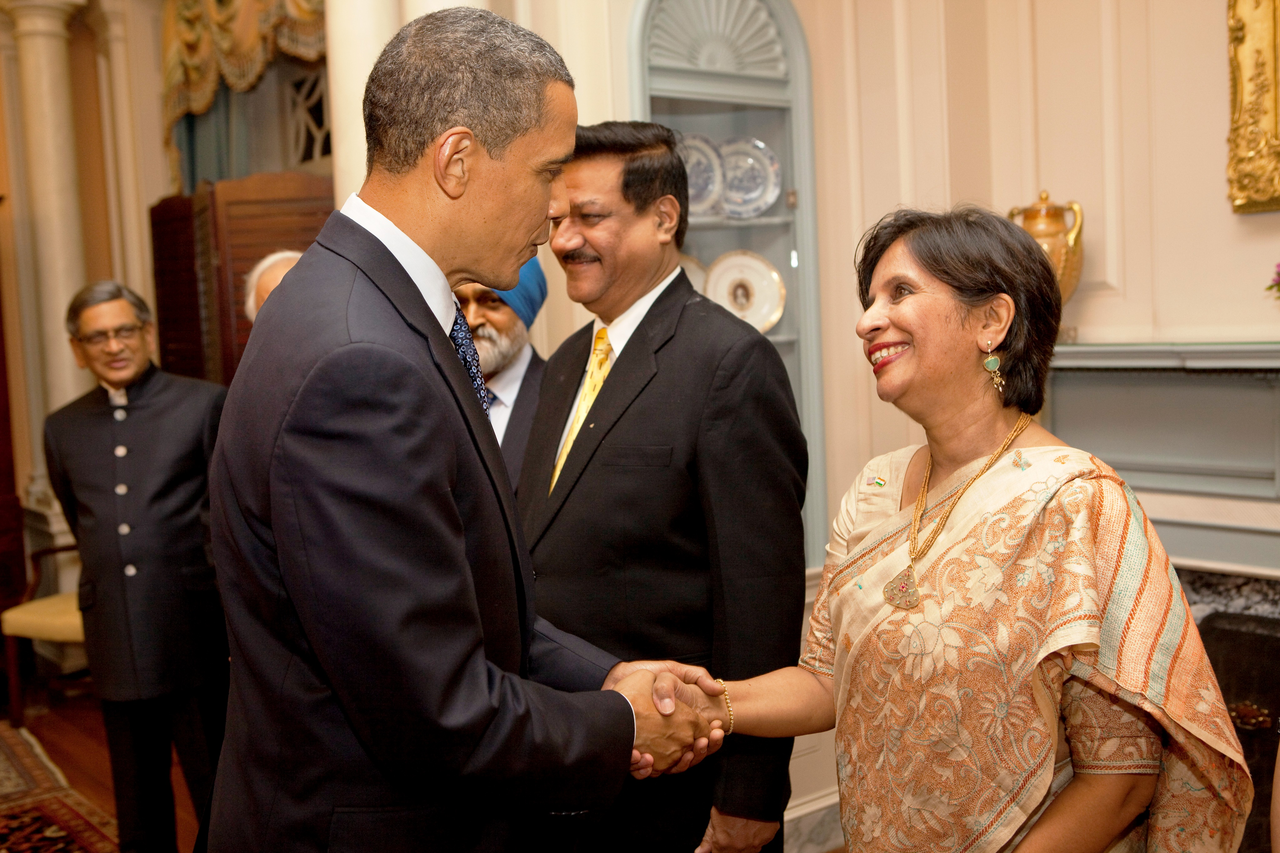 U.S. President Barack Obama shakes hands with a high-ranking member of the Indian Delegation at the U.S.-India Strategic Dialogue reception at the U.S. Department of State in Washington, D.C., on June 3, 2010. [White House photo/ Public Domain]